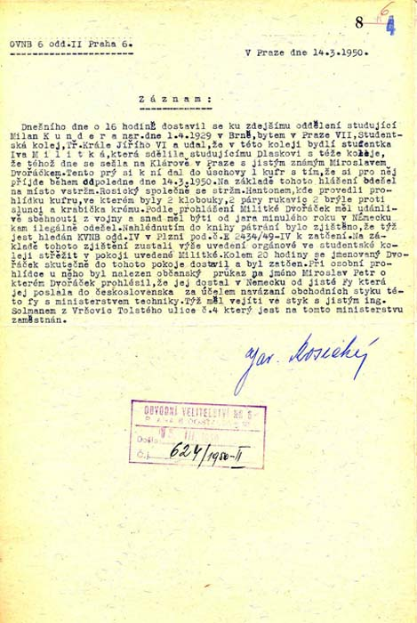 a police protocol